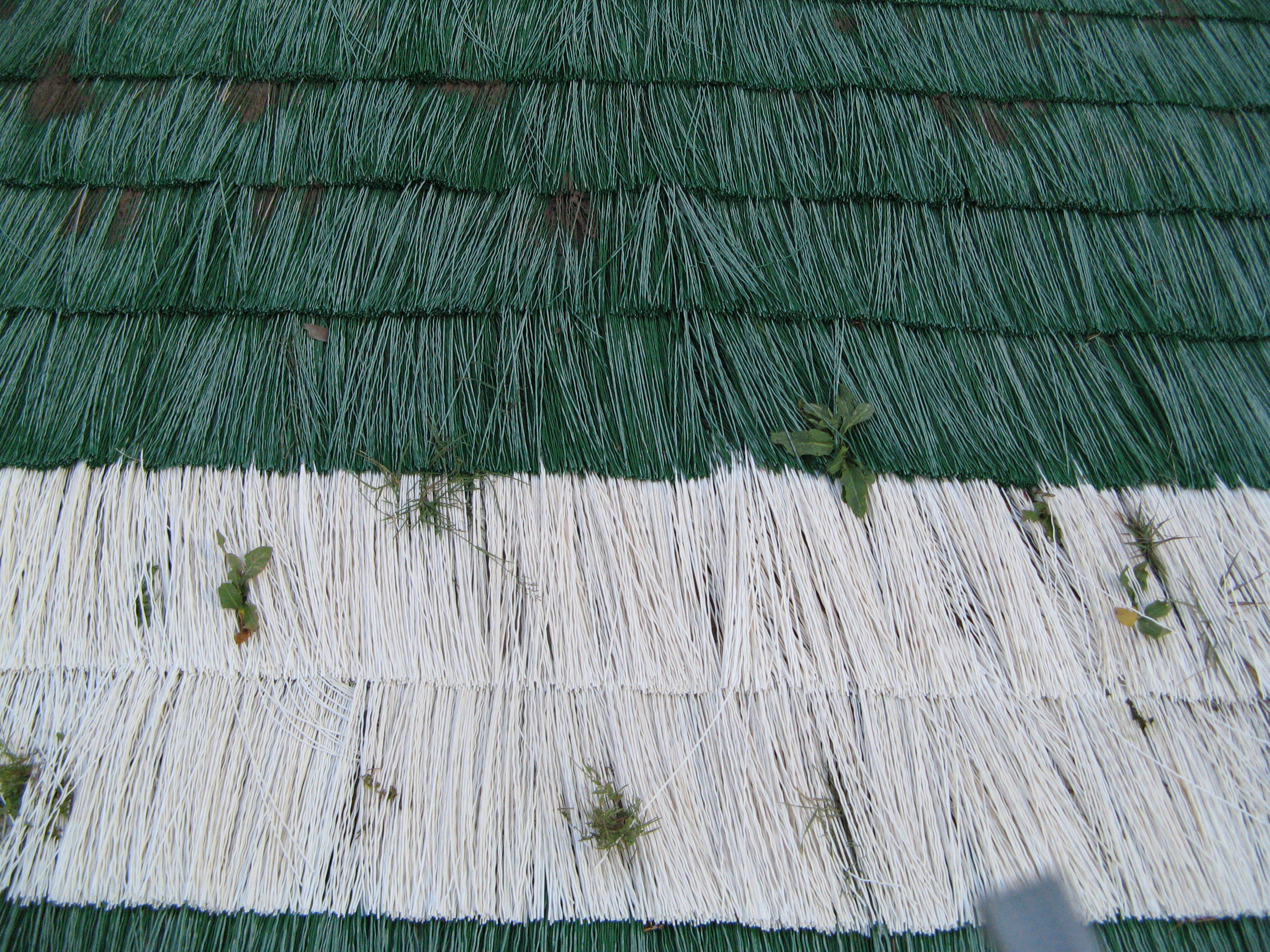 Plastic mattings in a ski jumping hill at Utah Olympic Park Jumps in Park City, USA. The plastic covering makes it possible to ski jump in the summer when there is no snow. Original description: The vegetation is starting poke through the snow - soon it'll all melt away.